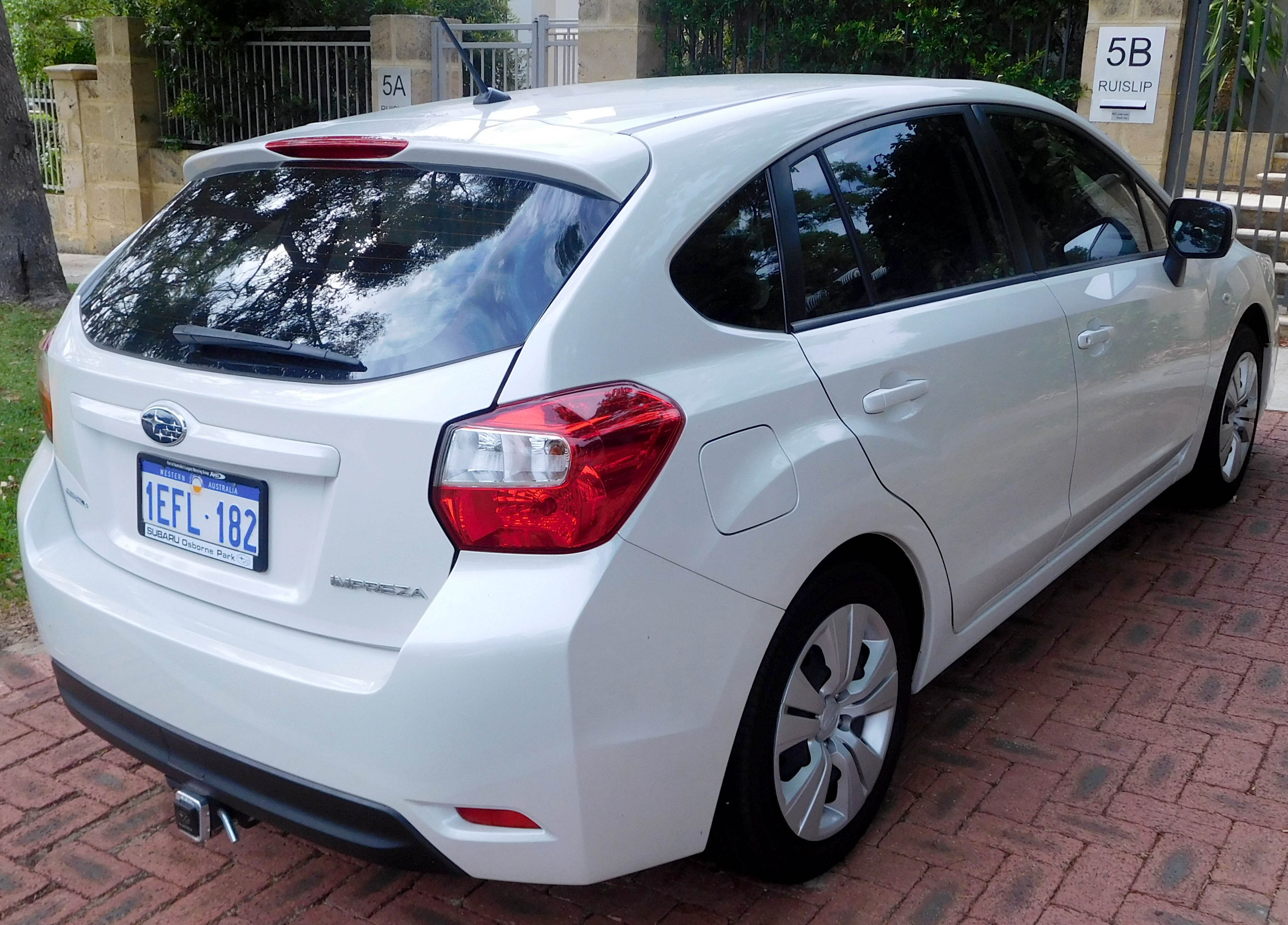 2013 Subaru Impreza (GP7 MY13) 2.0i hatchback. Photographed in West Leederville, Western Australia, Australia.